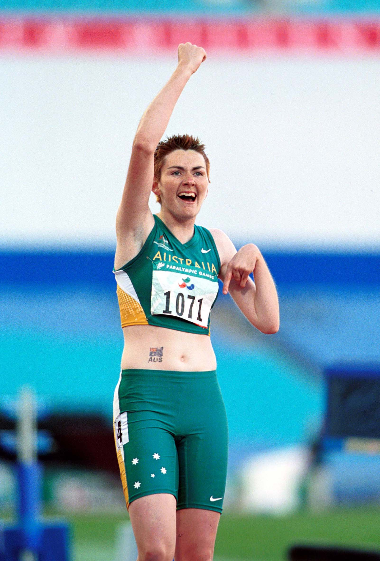 Australian track athlete Lisa McIntosh celebrates winning gold in the 200 m T38 at the 2000 Sydney Paralympic Games